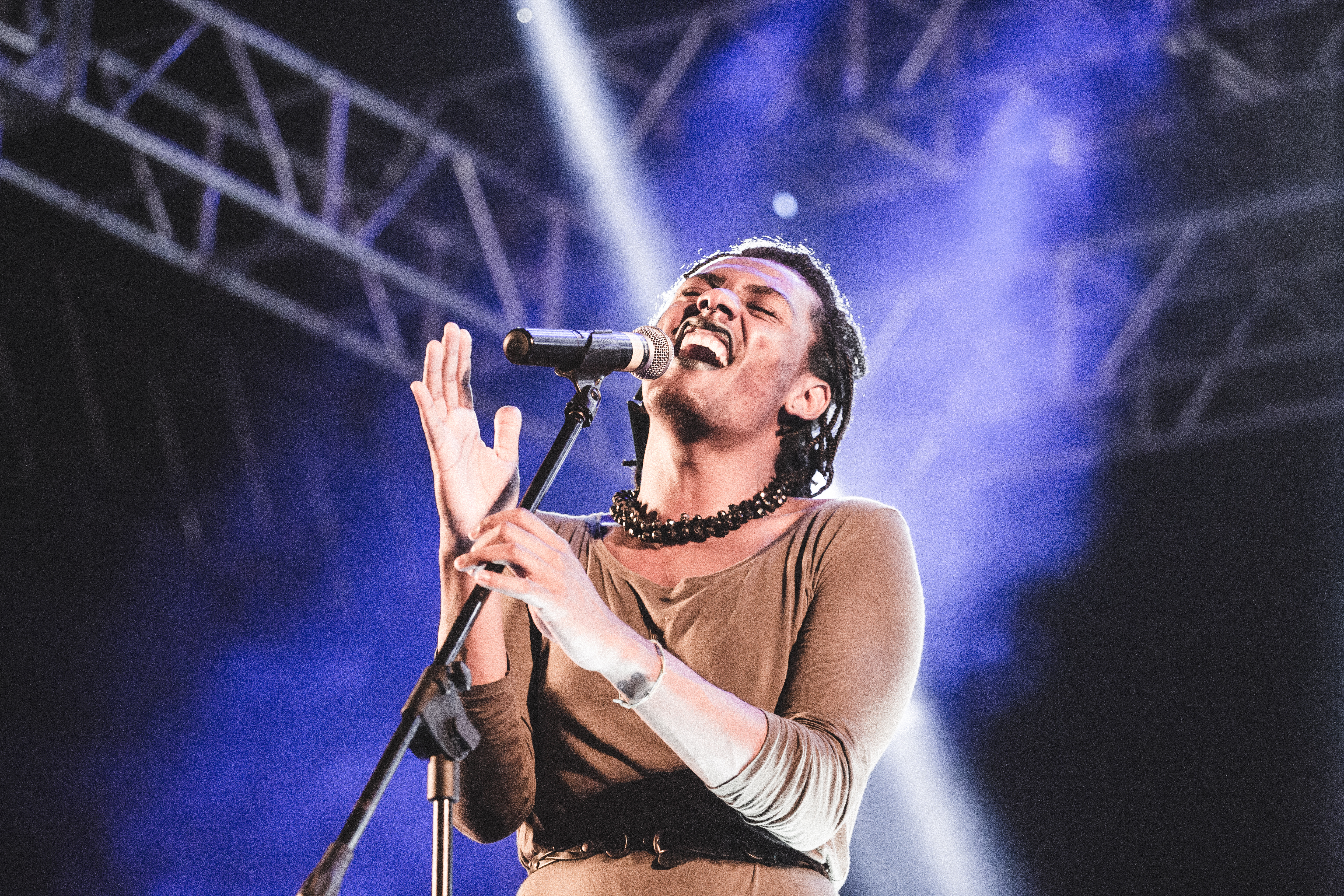 Liniker e os Caramelows presenting at Festival Contato in São Carlos